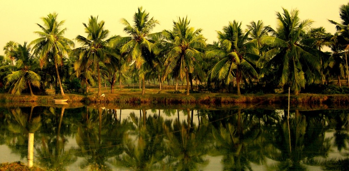 Ballipadu